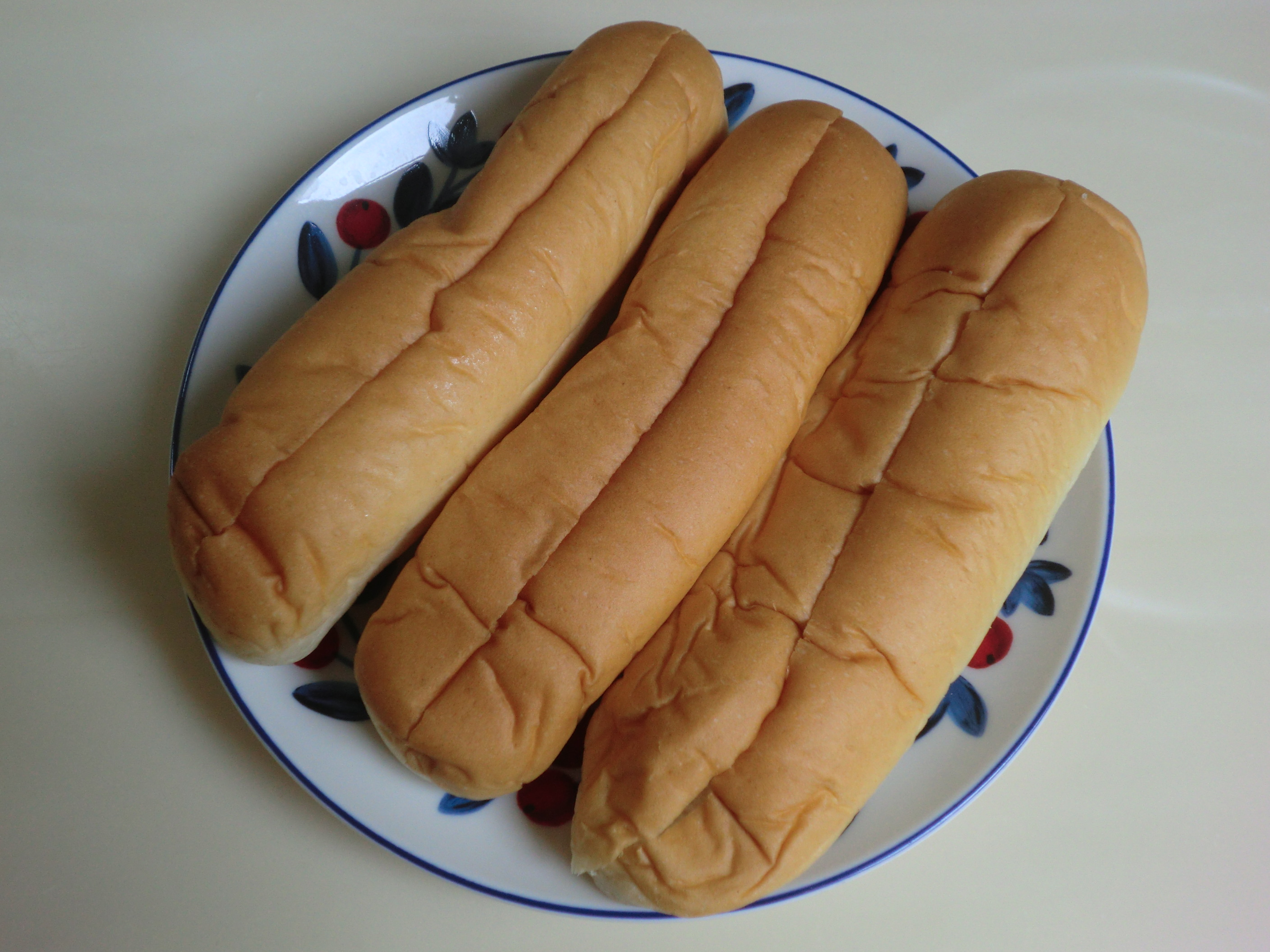 Hot dog buns of IKEA. Bought at IKEA Fukuoka store at Fukuoka, Fukuoka, Japan.